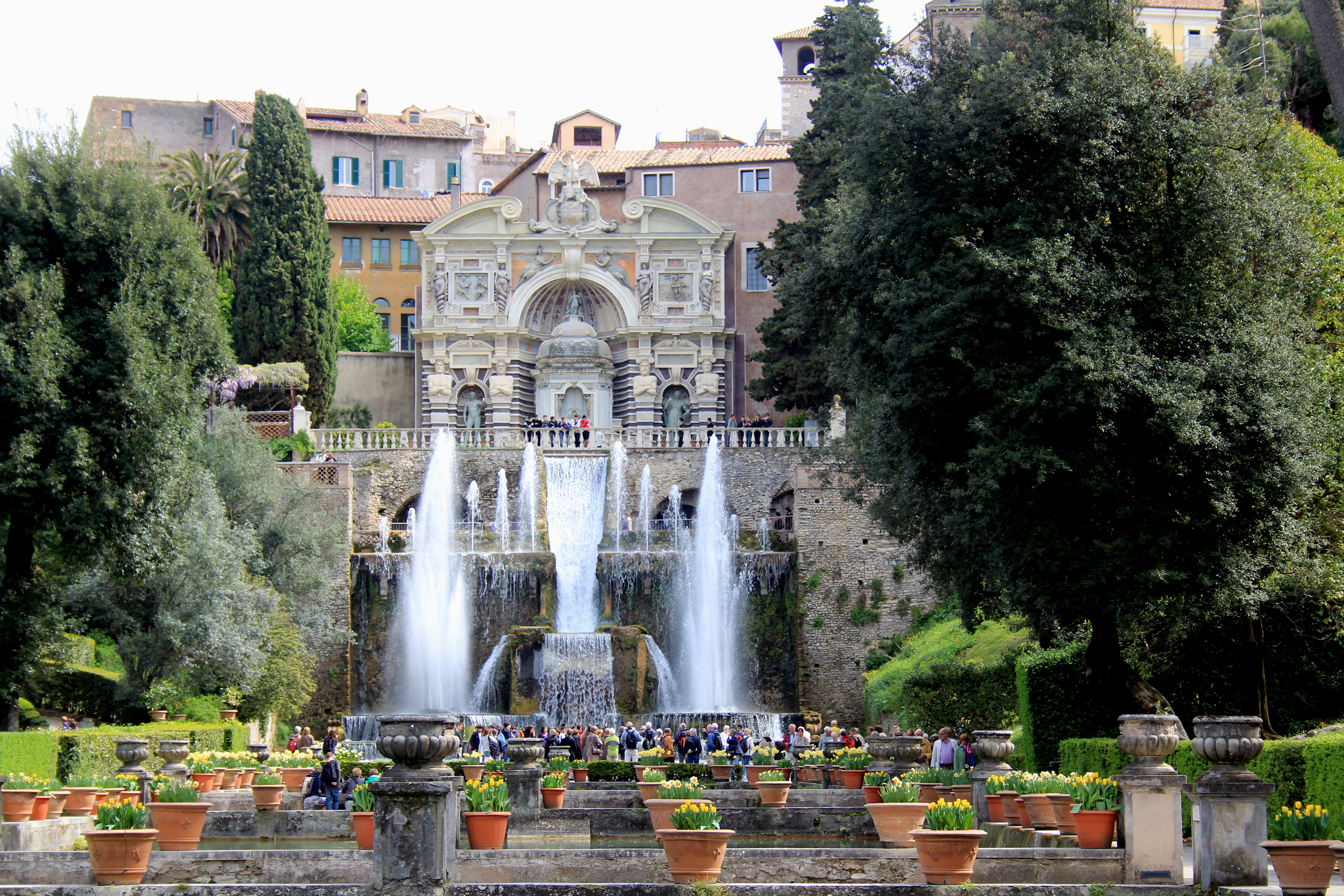 Central axis of park of Villa d'Este and view to The Neptune fountain and The Organ fountain in town Tivoli, Italy